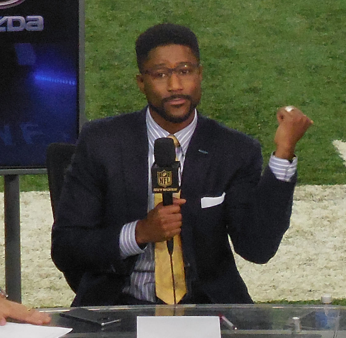 Nate Burleson Broadcasting From Detroit on December 3 2015